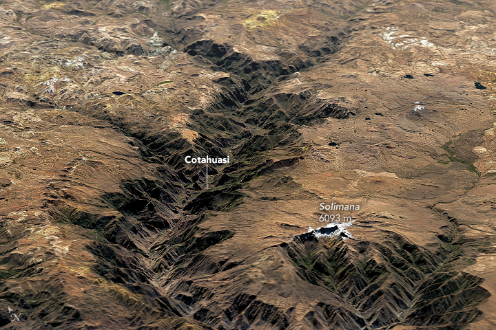 Cotahuasi Canyon in Peru stands as a potent reminder of the tremendous erosive power of water and ice. Cutting through a towering plateau—a product of repeated volcanic eruptions and tectonic uplift—the canyon is one of the deepest in the world. Cotahuasi formed over the course of several million years as rivers and glaciers chiseled into the plateau. The relief from the canyon floor to the rim ranges from 2.5 to 3.5 kilometers (1.5 to 2.2 miles), making Cotahuasi Canyon about twice as deep as the Grand Canyon. On June 3, 2016, the Operational Land Imager (OLI) on Landsat 8 passed over the canyon. The top image shows Landsat data draped over topographic data from NASA’s Shuttle Radar Topography Mission (SRTM). The second image is a nadir (straight down) view from OLI of the area near the town of Cotahuasi. Evidence of volcanic activity surrounds the canyon. To the south, snow-capped Solimana, an inactive stratovolcano that last erupted about 500,000 years ago, soars above the plateau. Colorful yellow and orange volcanic deposits are visible around the north rim of the canyon. More info & refs at source URL